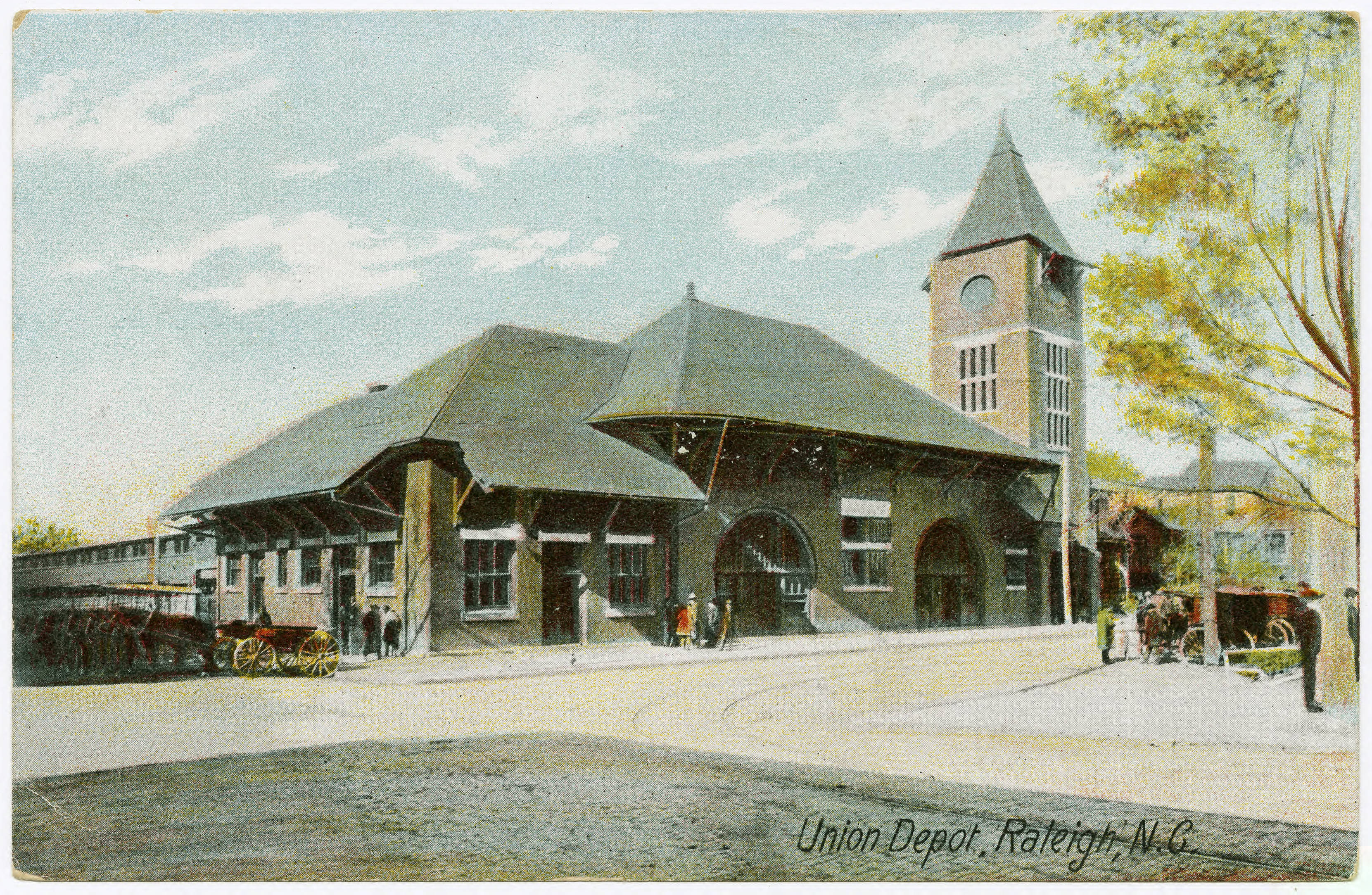 Undated postcard featuring the Raleigh Union Depot.